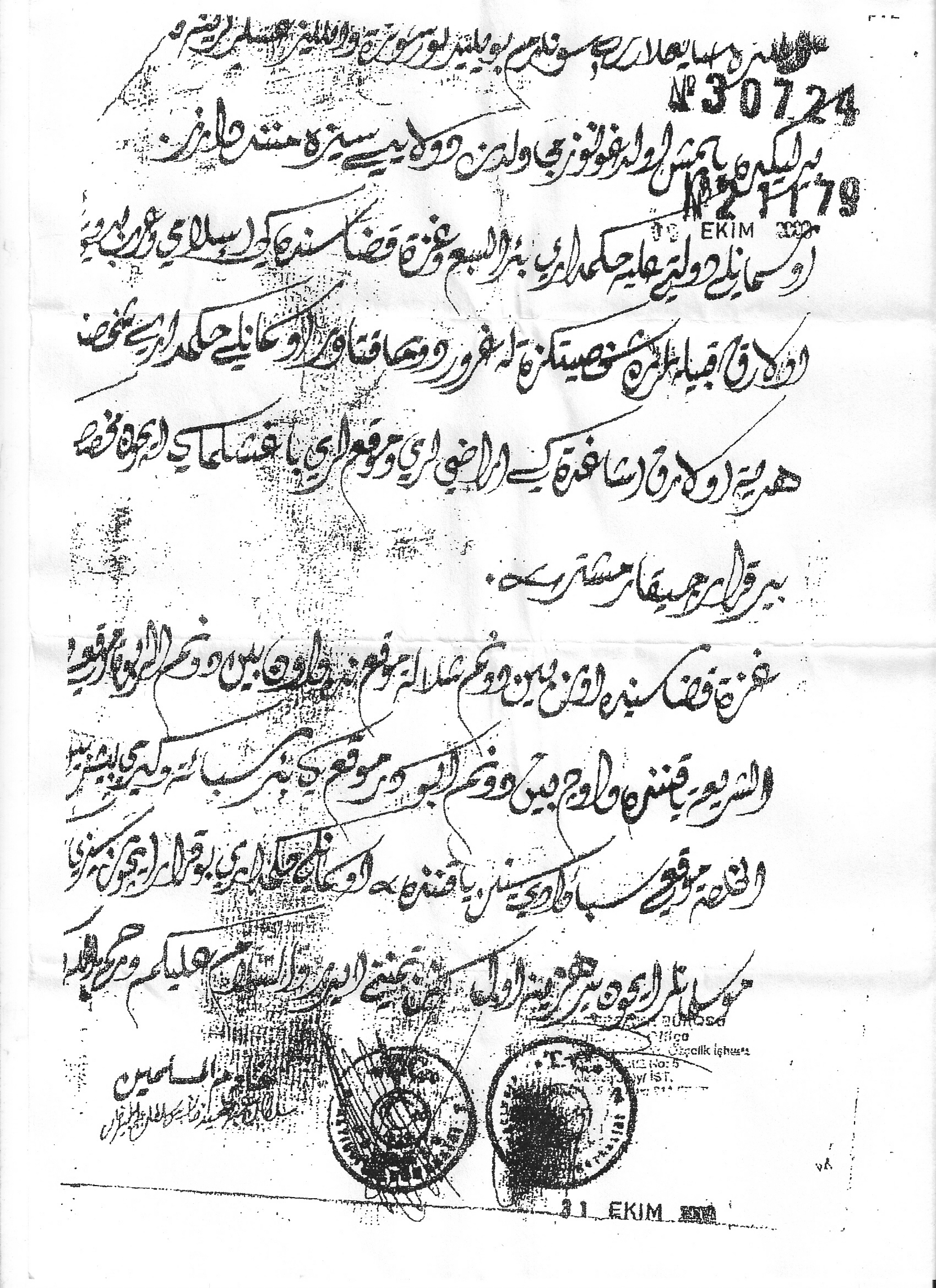 Sultan Abdel Hamid document to Tarabin tribe